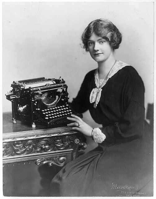 Photograph of a woman with an Underwood typewriter.